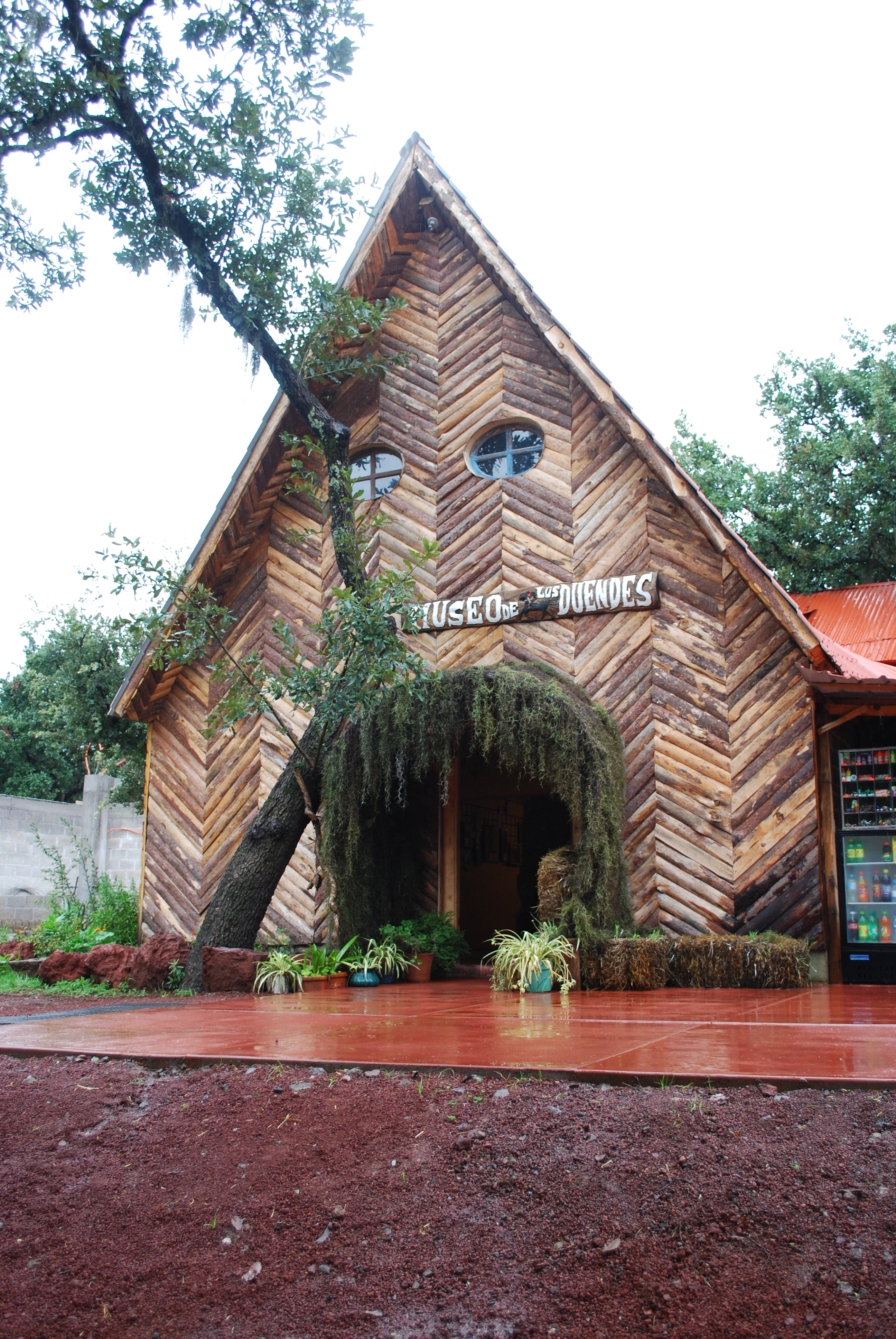 Facade of the Museo de los Duendes, Huasca de Ocampo, Hidalgo, Mexico